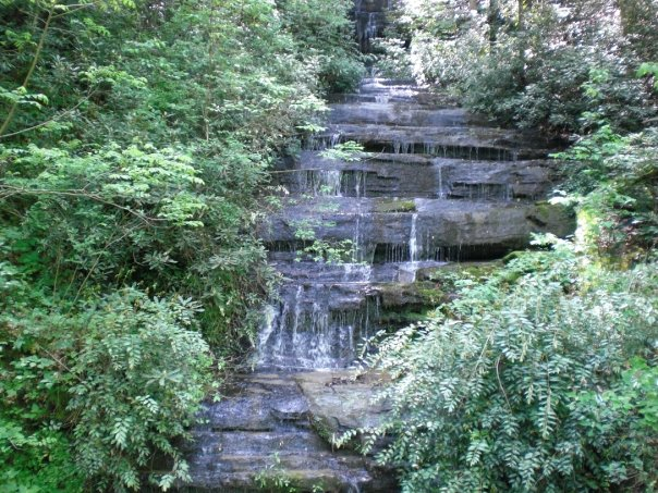 Key Falls, near Pisgah Forest, North Carolina